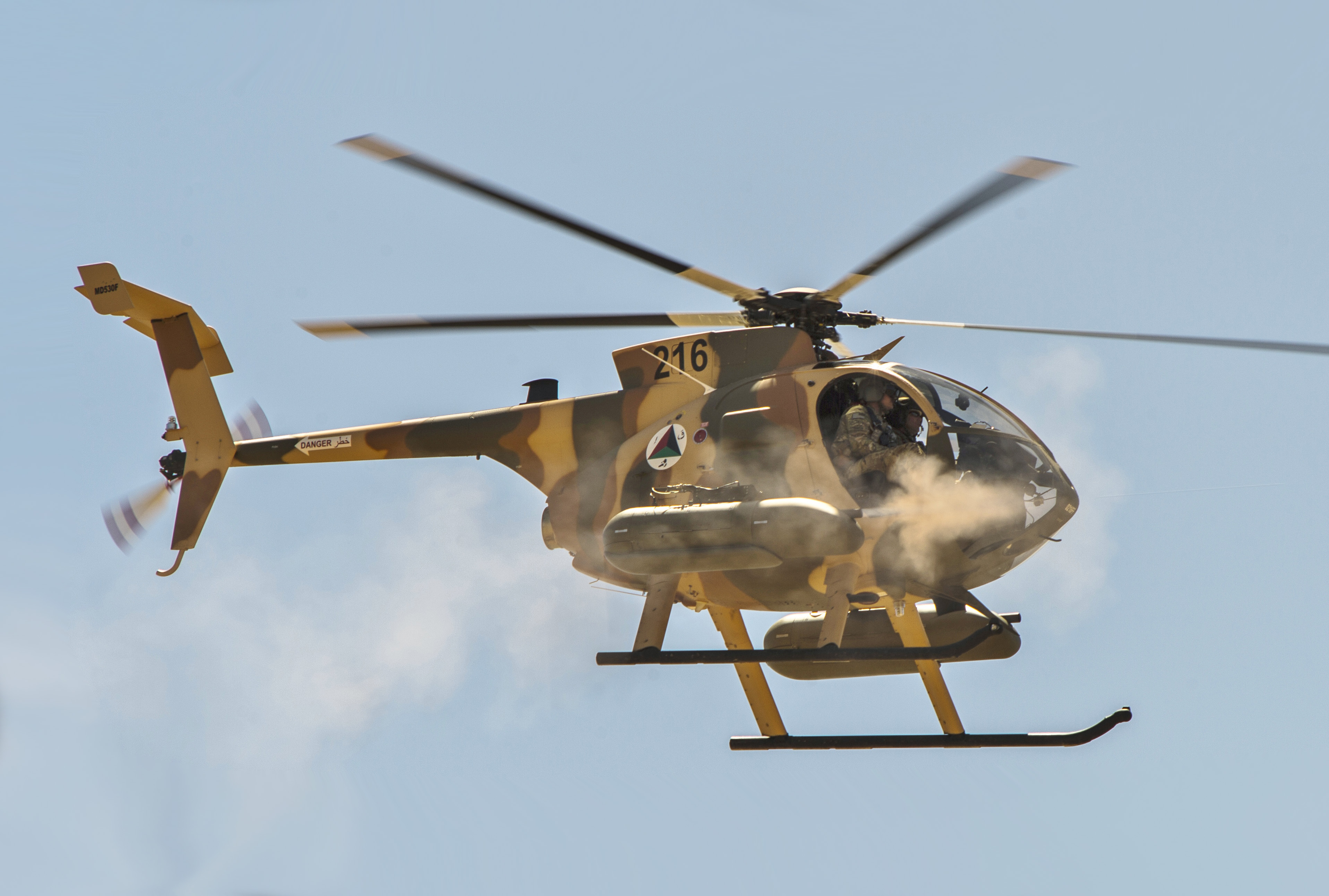 Afghan Air Force MD-530F Cayuse Warrior helicopter fires its two FN M3P .50 Cal machine guns during a media demonstration, April 9, 2015, at a training range outside of Kabul, Afghanistan. (U.S. Air Force Photo by Staff Sgt. Perry Aston/Released)